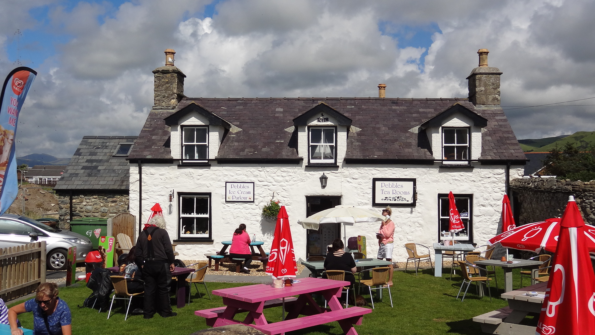 Maes y Llefrith farmhouse, now the Pebbles Cafe